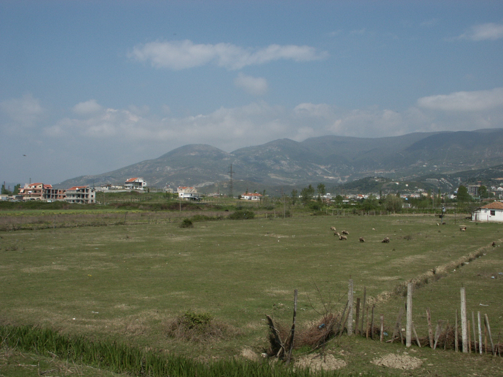 Coastal plain in Albania, Spring 2007